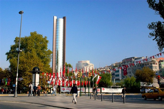 Summary Author: David Bjorgen